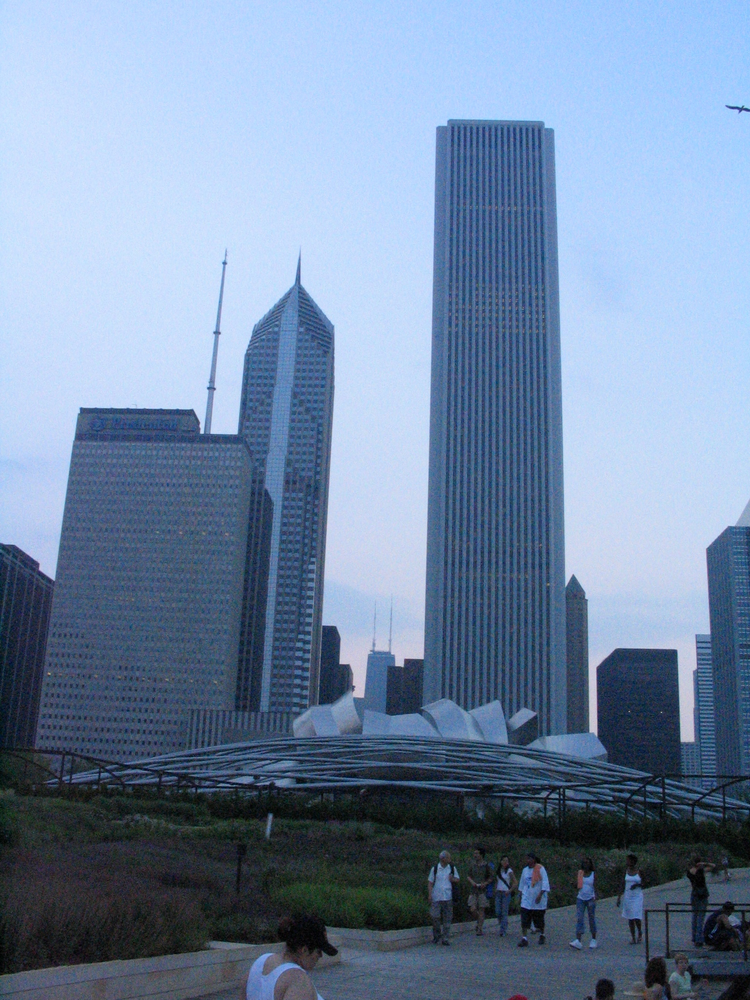 Several tall buildings from Millennium Park in Chicago